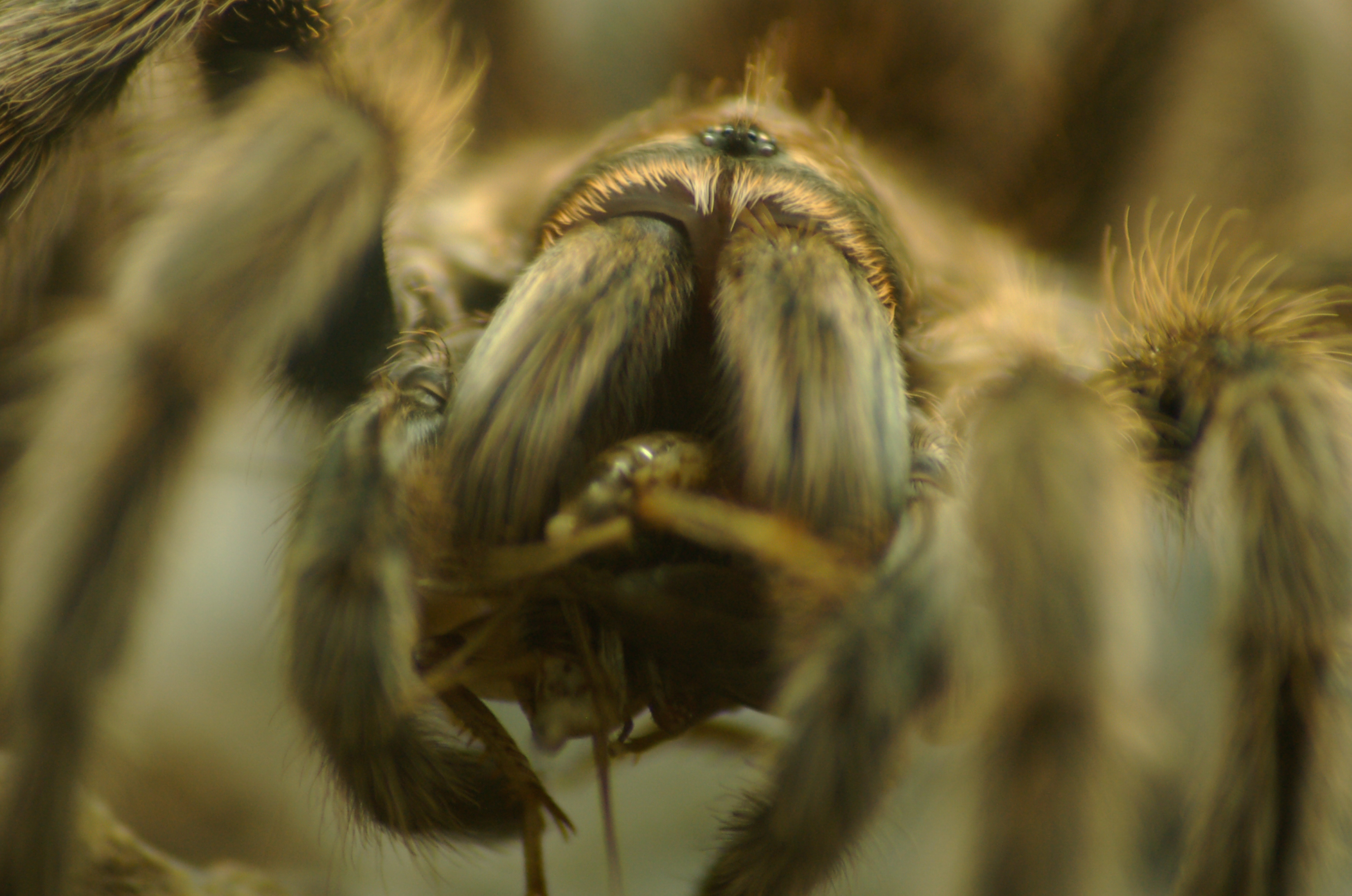 Chilean spider hair brushed